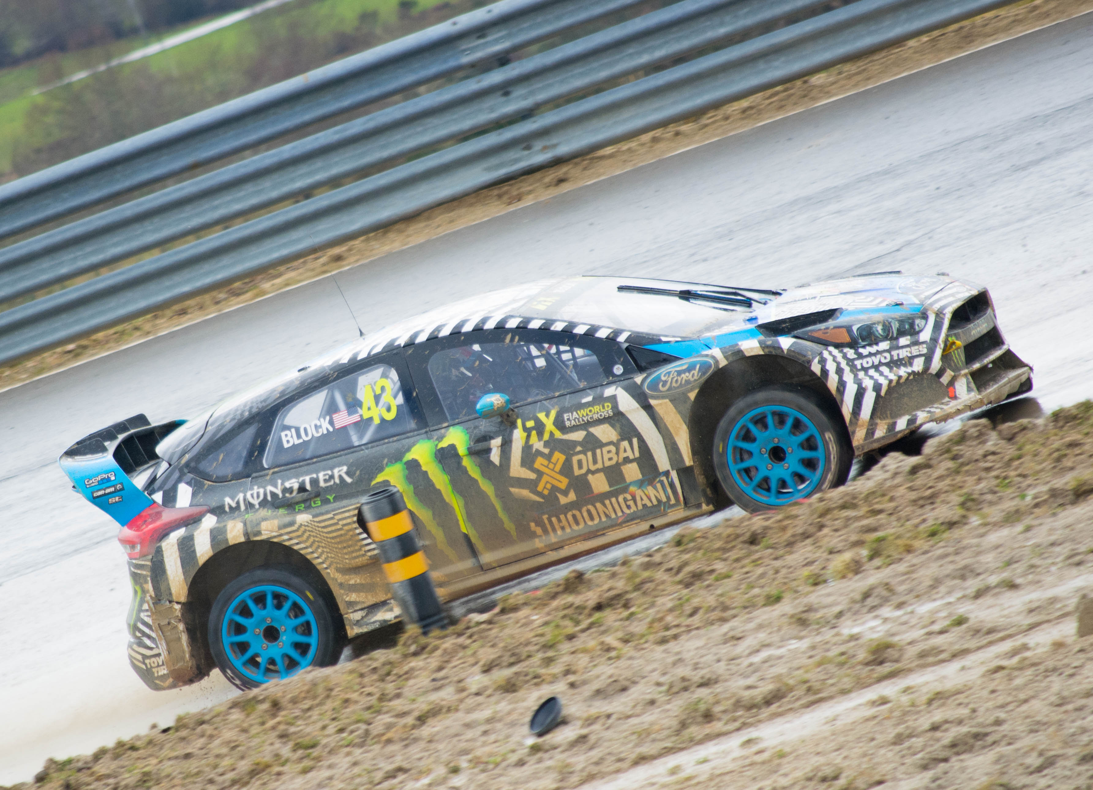 Portugal Montalegre 2016